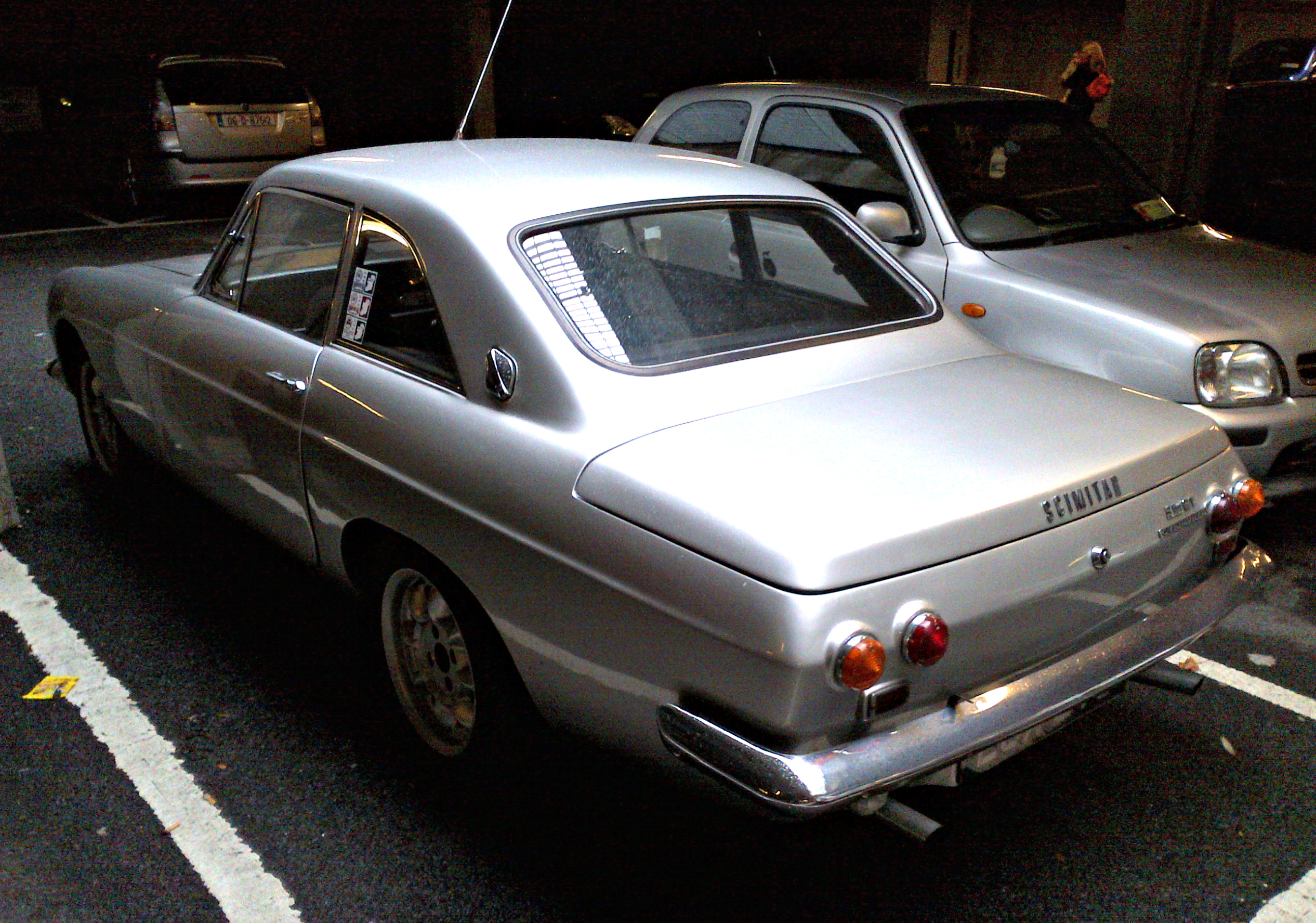 Scimitar GT SE4. Taken with my mobile, hence the "quality"...